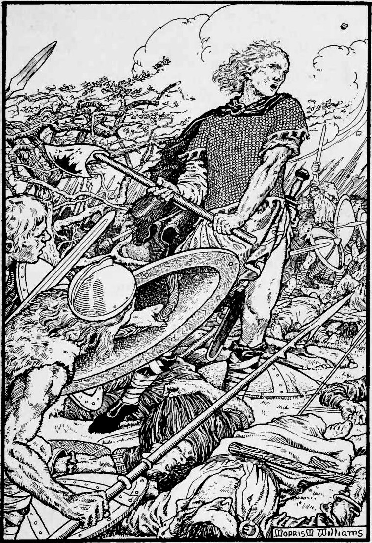 Illustration of Alfred the Great at the Battle of Ashdown. The image appears on page 26 of: Hull, E (1913). The Northmen in Britain. New York: Thomas Y. Crowell Company. The original caption reads "Alfred at Ashdune".